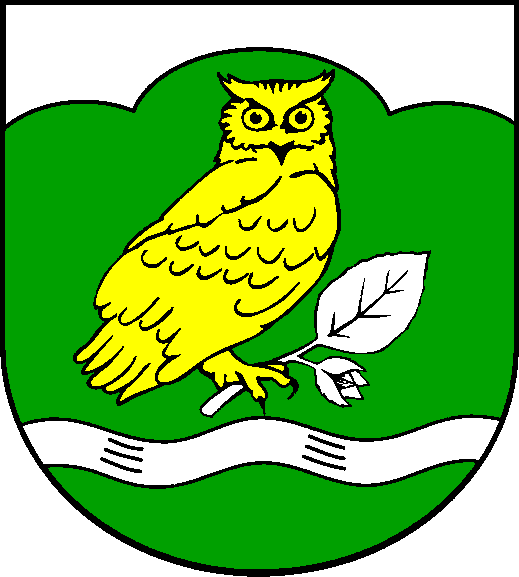 Coat of arms of the municipality Winsen in Schleswig-Holstein, Germany.